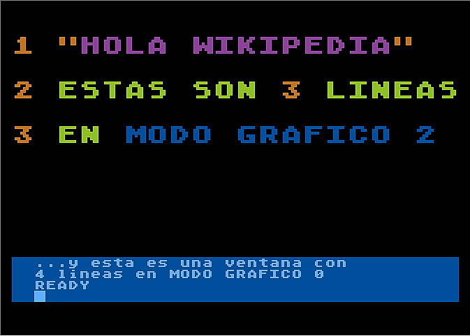 screeen capture of a demo program on graphics modes- Atari XL/XE